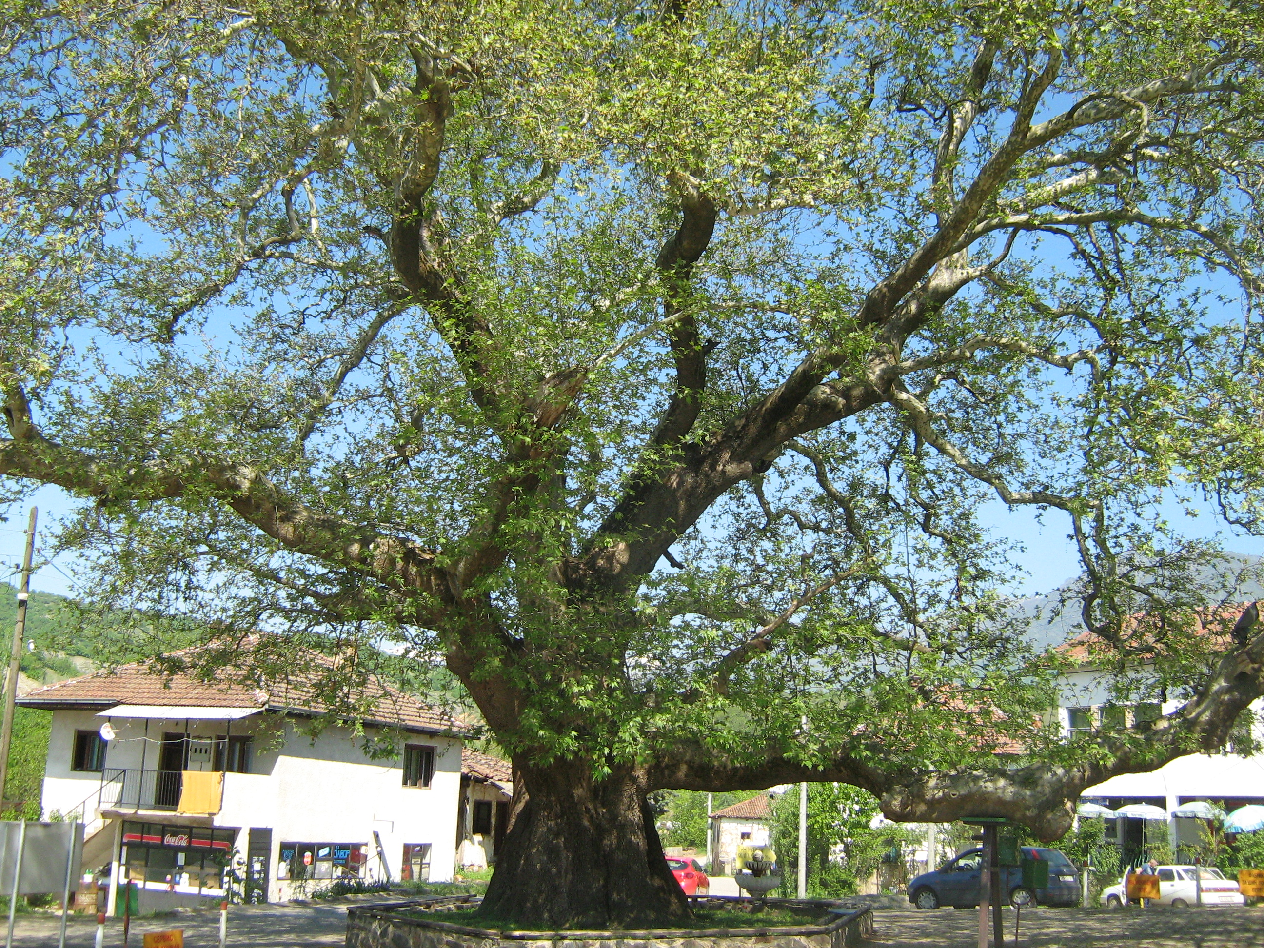 Village Teovo, Republic of Macedonia